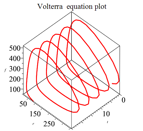 Lotka Volterra equation Maple 3d plot